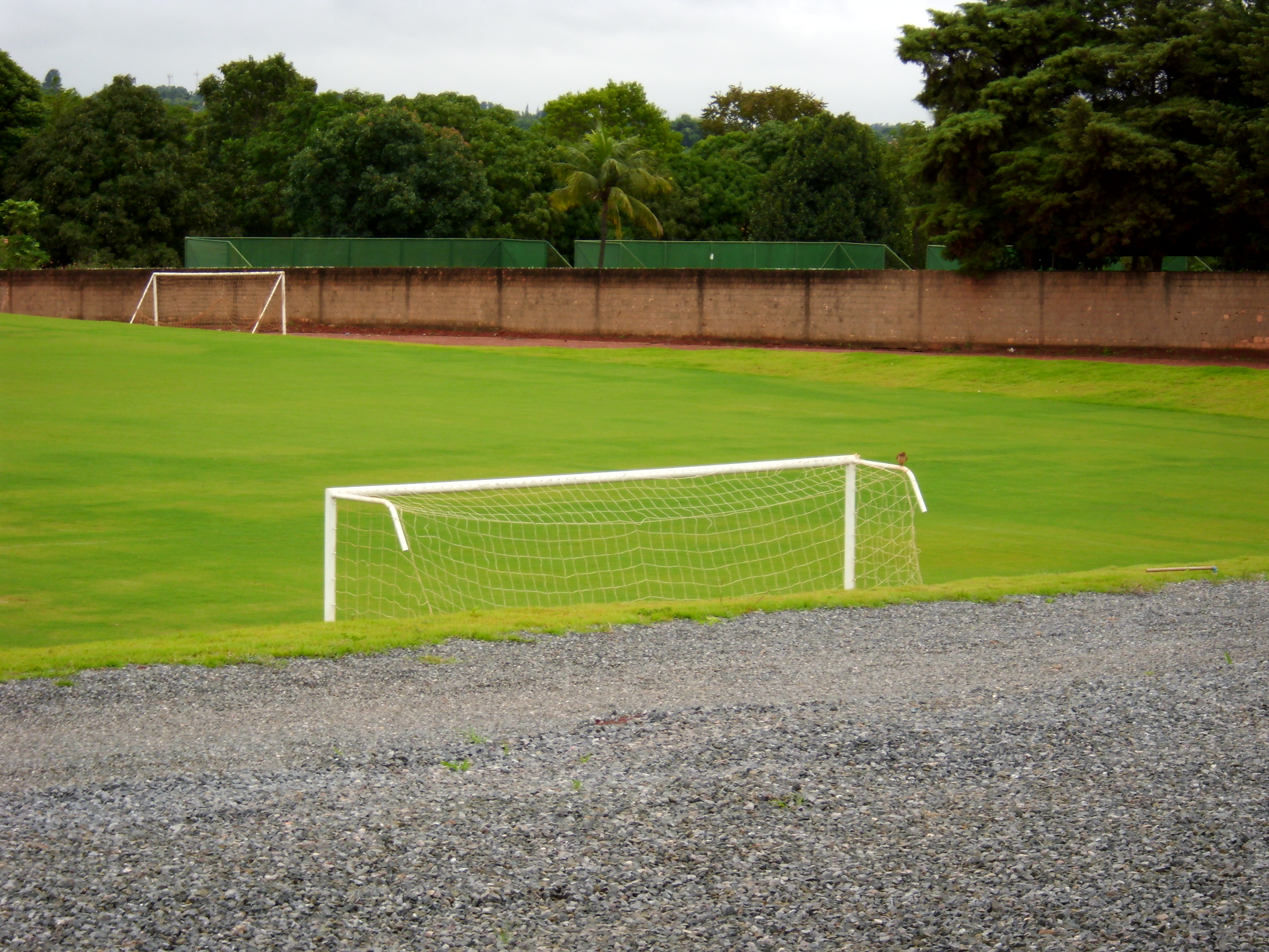 Brasiliense FC Training Ground in Brasília-DF.